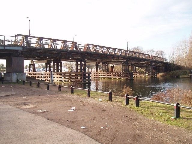 Walton Bridge. The temporary bridge, built in 1953 and used until 1999 when a second temporary bridge was built to take traffic. Both bridges are still there while they debate plans for another bridge on the site.